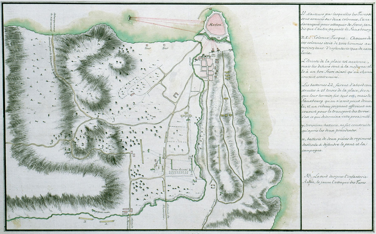 This is old french map of attack of russian army to Modon fortress in Peloponnes during Orlov Revolt in 1770.